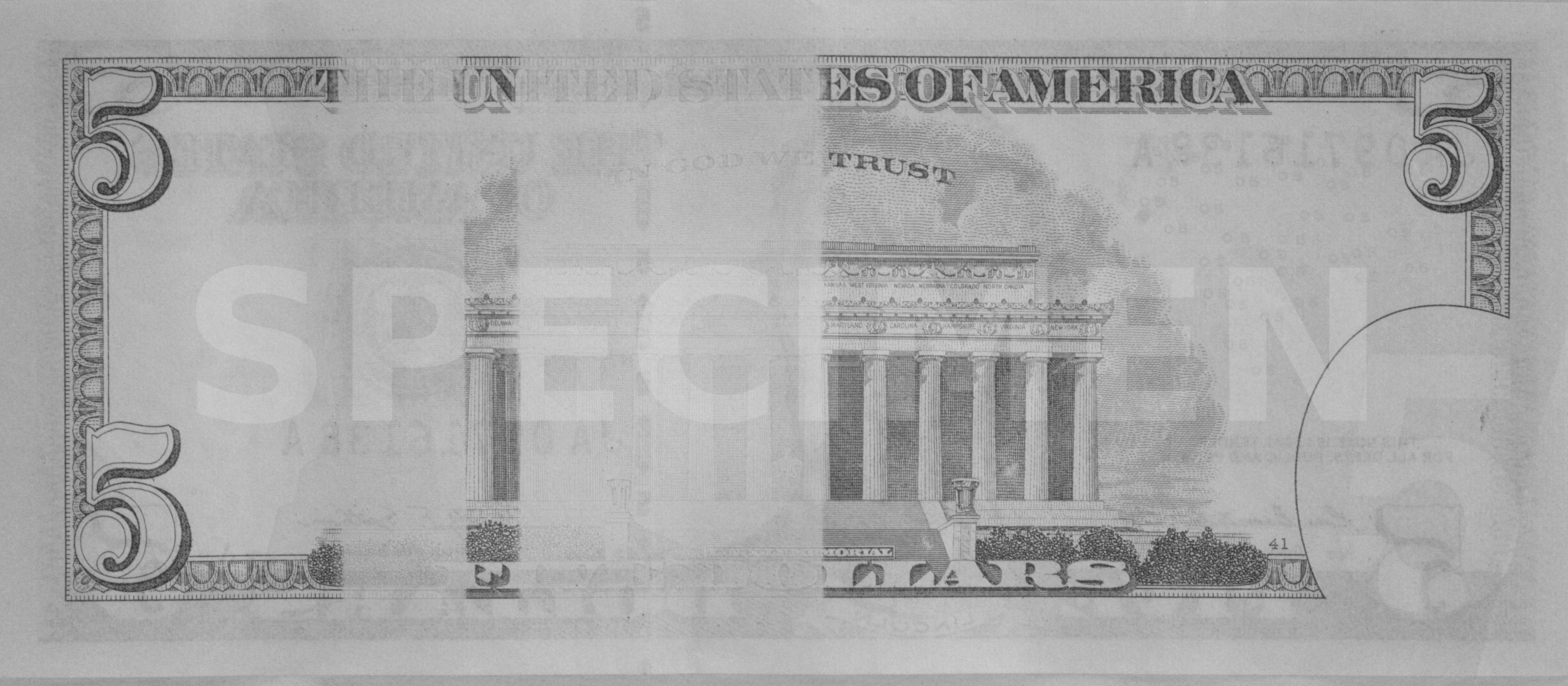 A Series 2009 bill taken in sunlight with a camera modified to only see in the IR range. Note the vertical strips on the back. The image has been watermarked with the word "SPECIMEN".